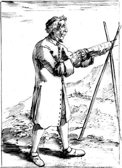 Francesco Bianchini holding the eyepiece mount of an aerial telescope